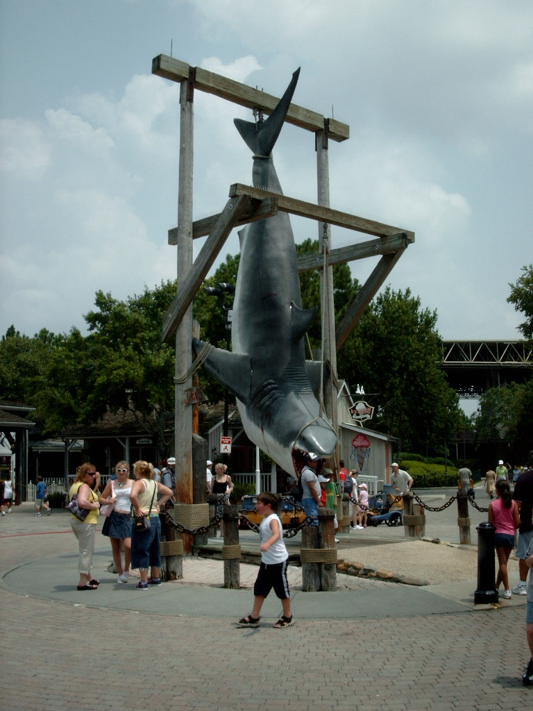 The Jaws shark that is suspended on display outside the entrance to the Jaws attraction in Universal Studios Florida.